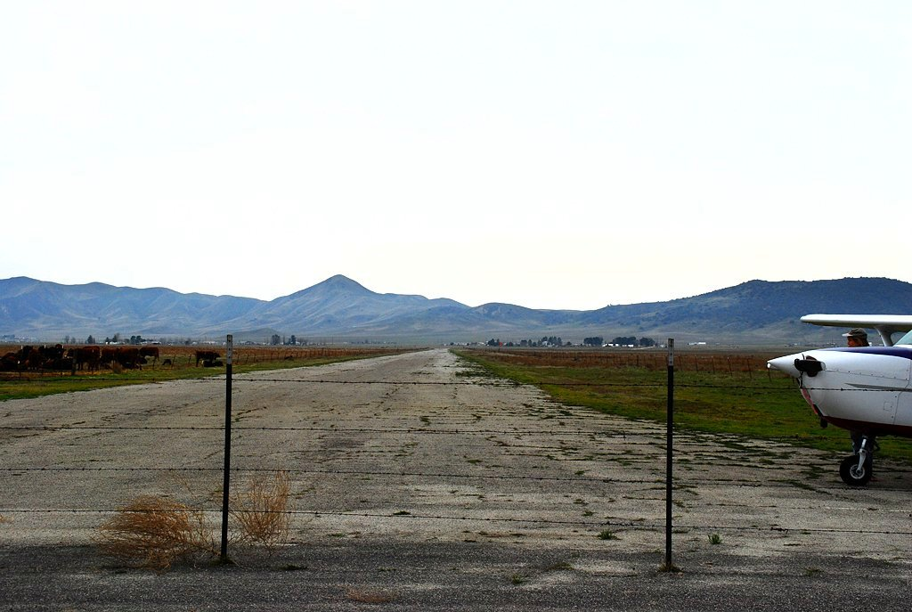 View from north end of California Valley Airport, with Cessna 172 at tie-down. Located at Carrizo Plain in San Luis Obispo County, central California.